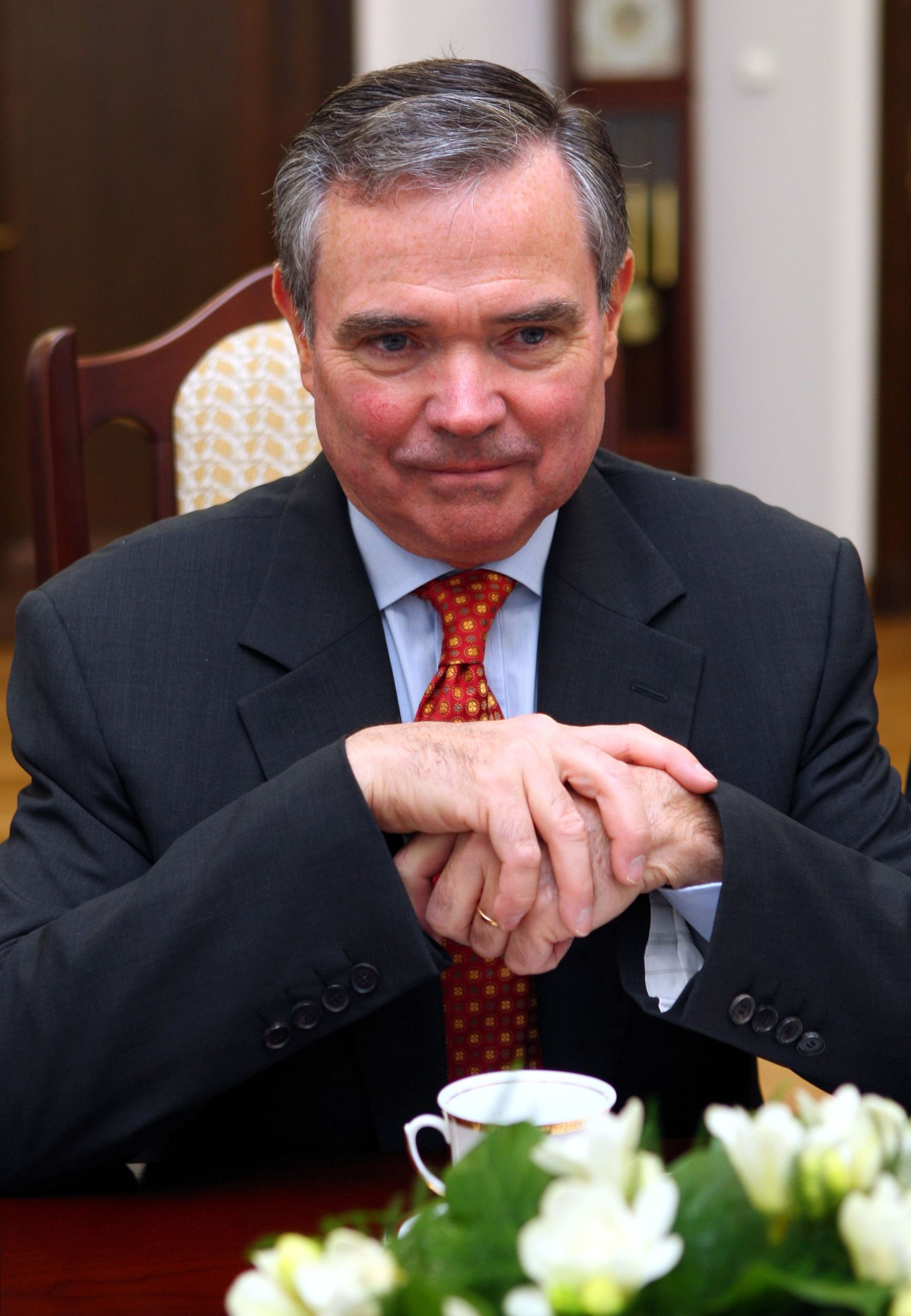 President of the National Assembly of France Bernard Accoyer in the Polish Senate